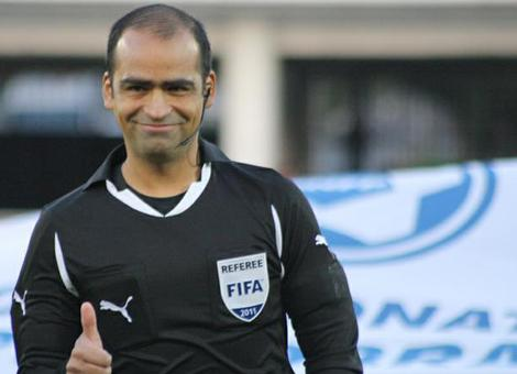 Picture